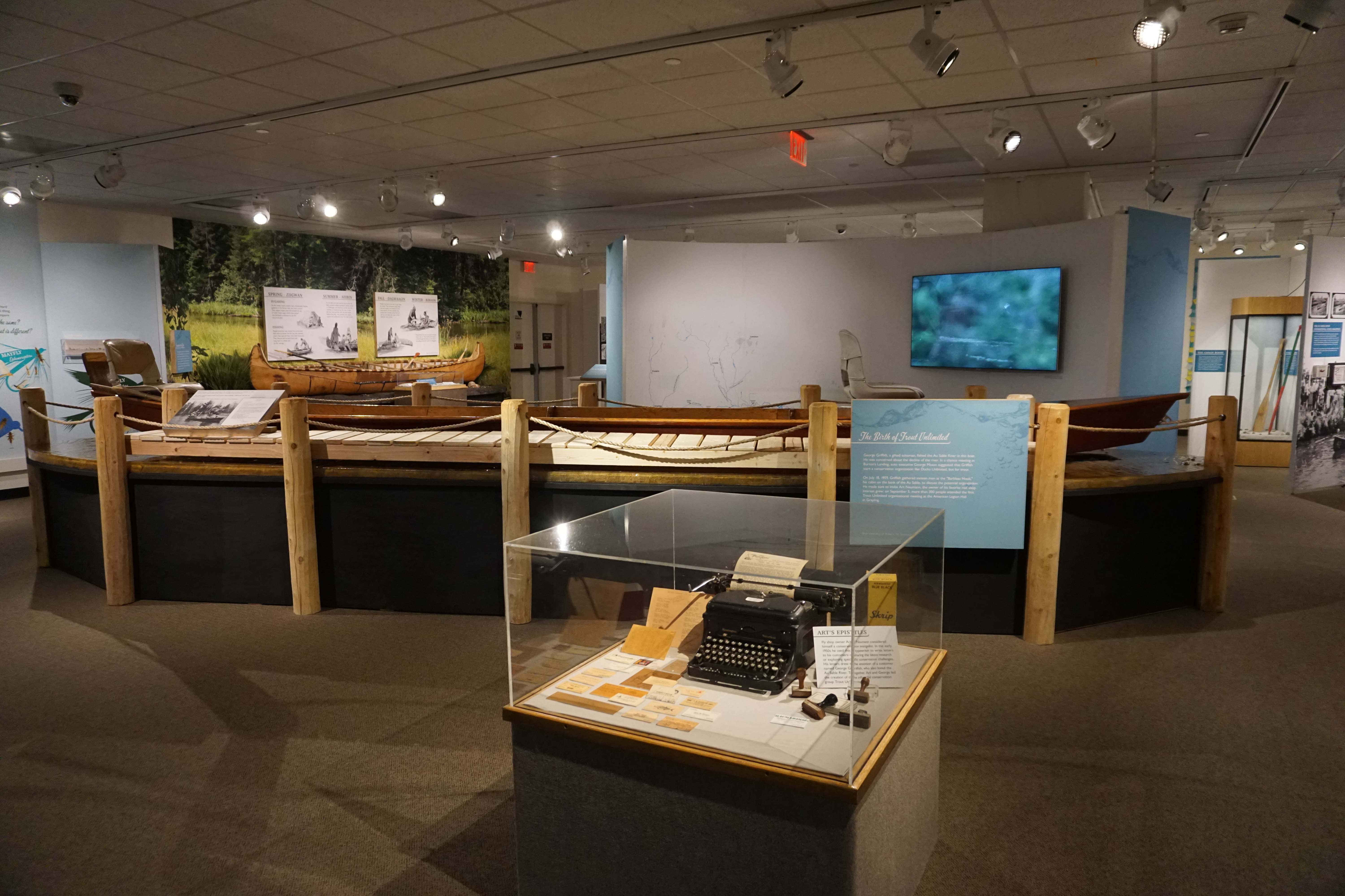 The River That Changed the World exhibit at the Michigan History Museum in Lansing, Michigan (United States).